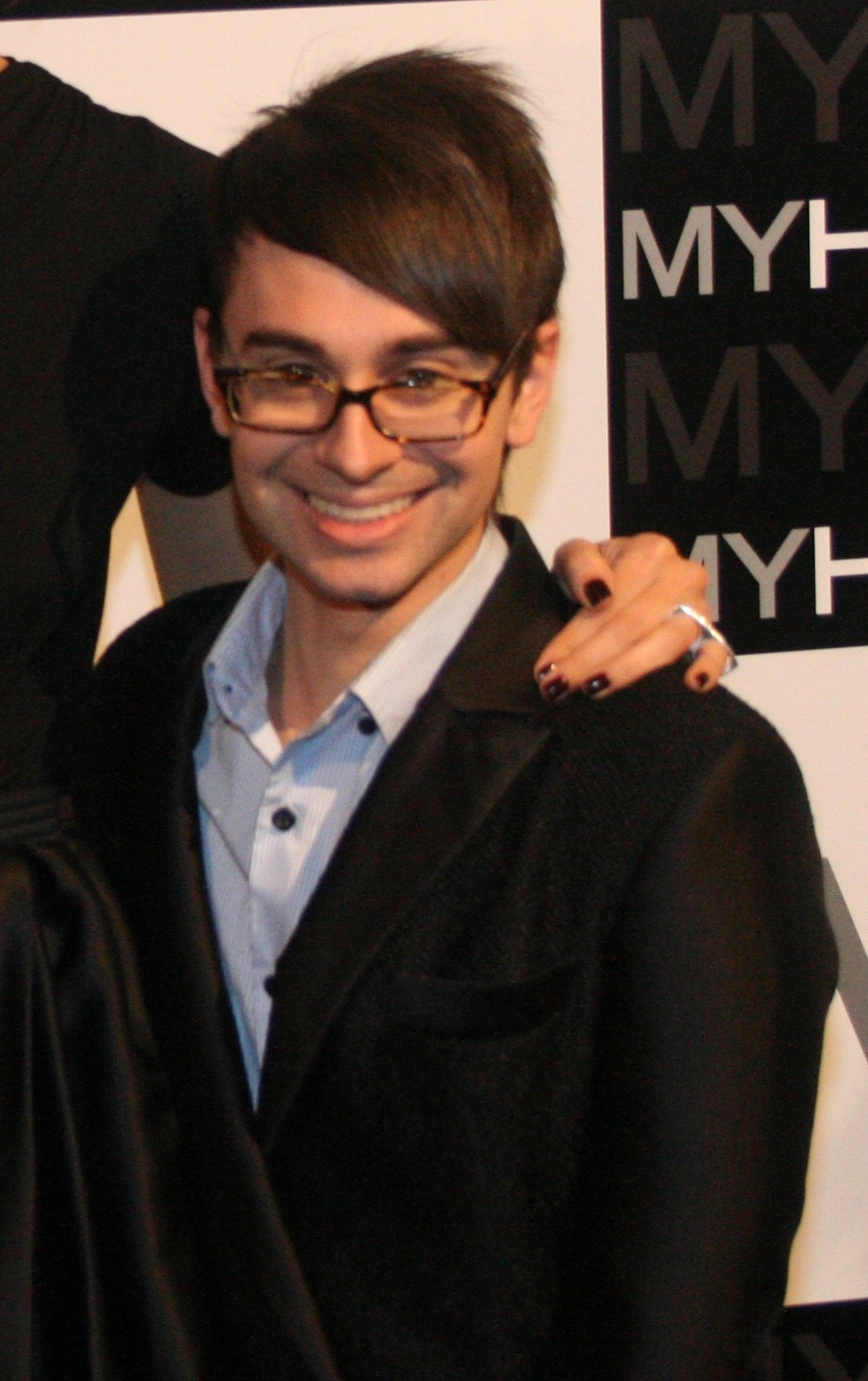 Christian Siriano at the My Habit launch at Skylight West Studios in May 2011